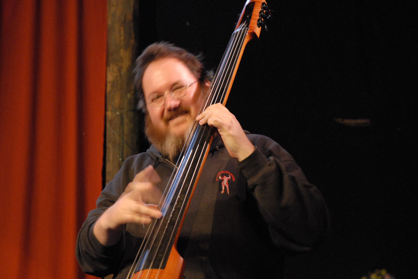 Swedish musician Jan Hellman